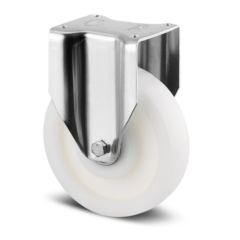 Rigid caster. Includes housing and wheel. Used in material handling applications.